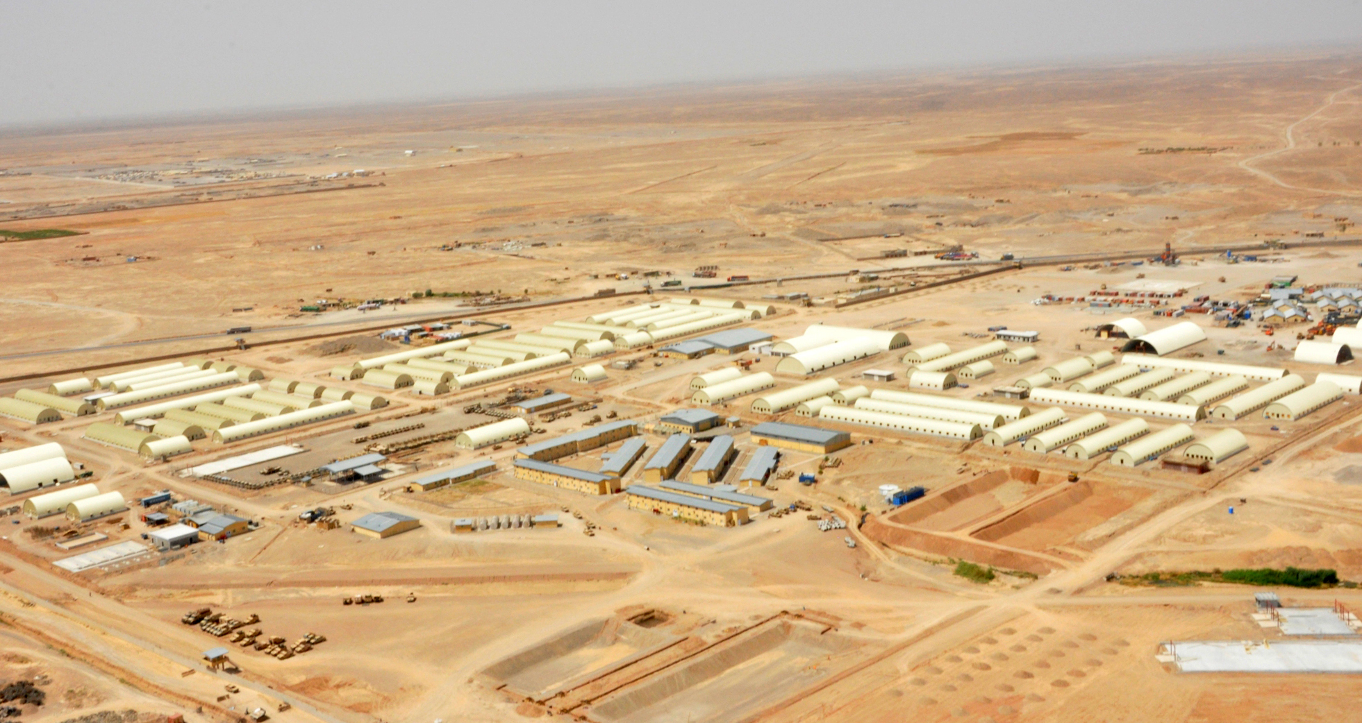 Construction of Afghan National Army base in southern Afghanistan.